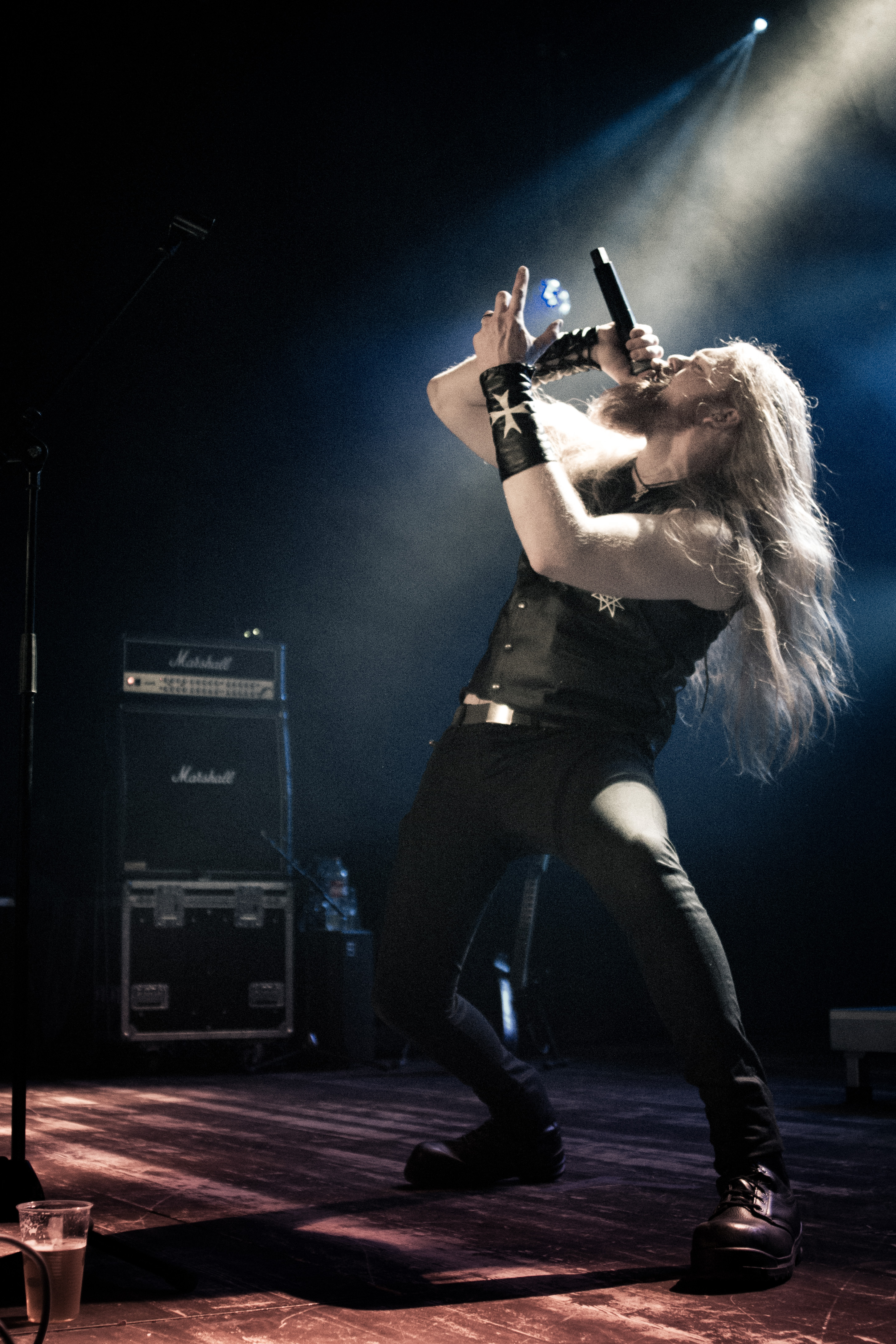 Picture of Crimson Moonlight take at Elements of Rock 2017.